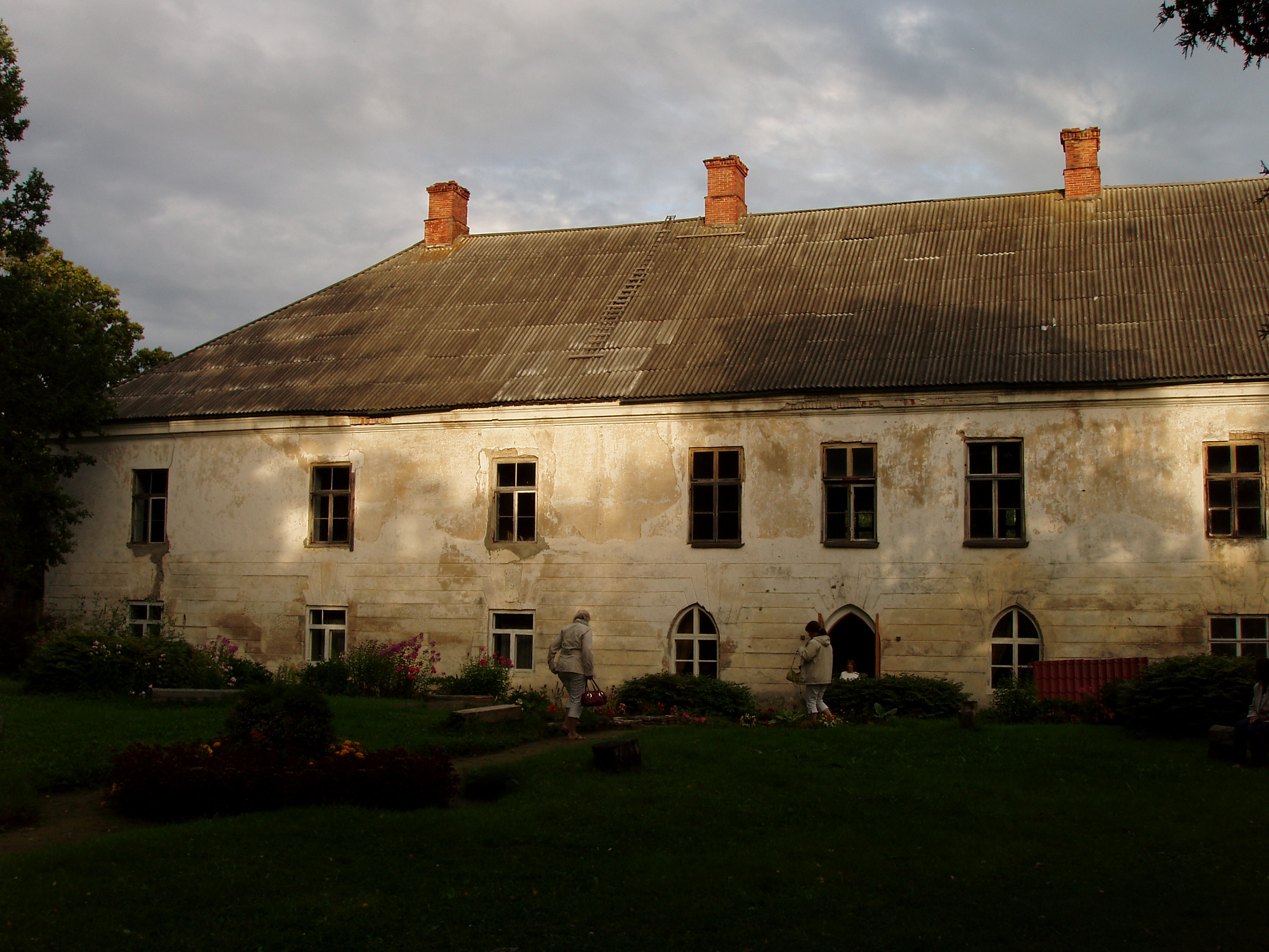 Kirna manor house, view from the back.